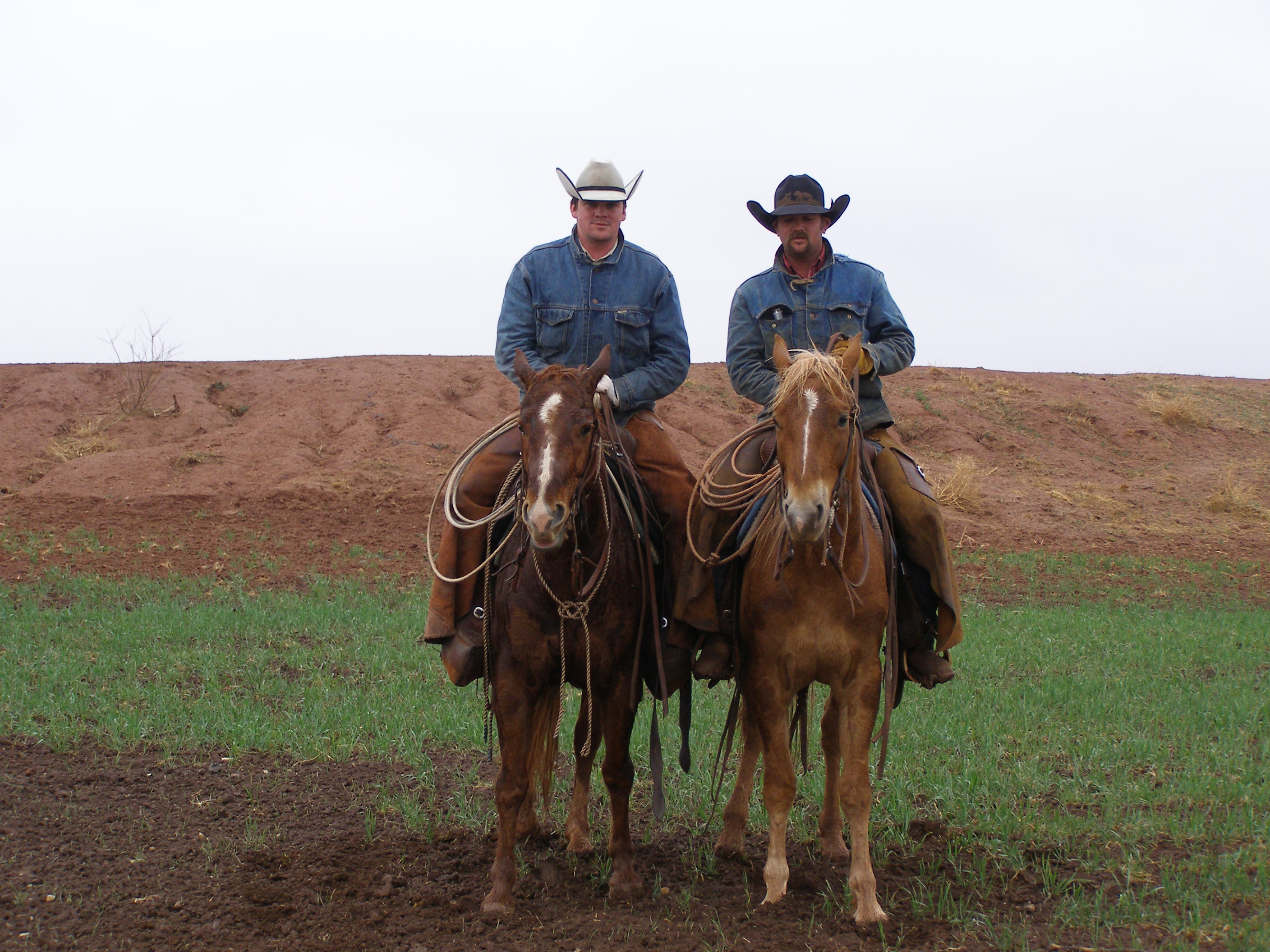 I met these two cowboys near Benjamin, Texas as they were getting ready to go out and rope cattle. They were such good sports and let me take their picture.